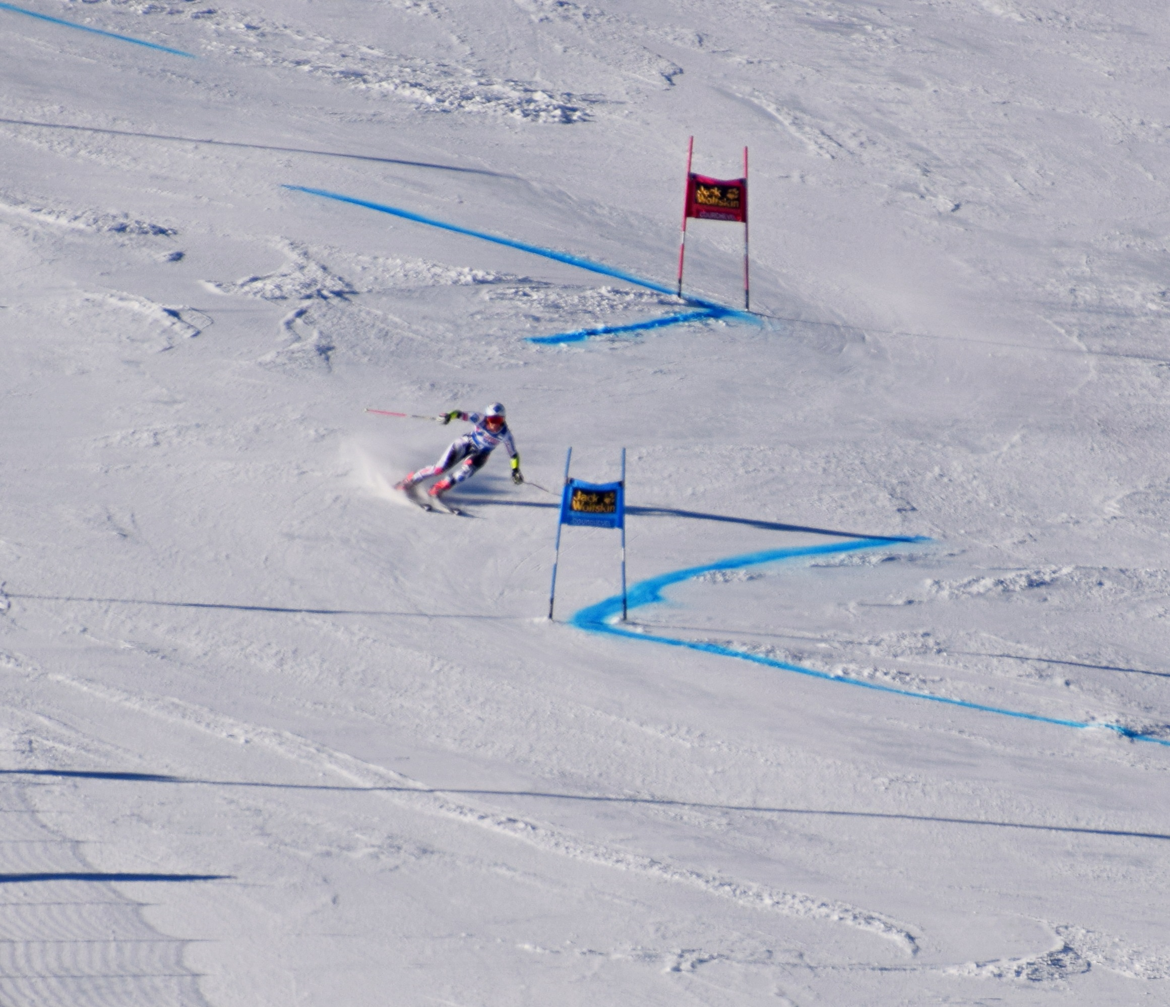 Tina Weirather, 1 run of Giant Slalom, Alpine Skiing World Cup of Women in Courchevel, 20 december 2015